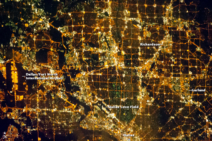 Most metropolitan areas of the western United States are spread over large areas with regular street grid patterns that are highly recognizable from space (particularly at night). The northern Dallas metro area in Texas exhibits this pattern in this astronaut photograph from the International Space Station. The north-south and east-west grid of major streets is highlighted by orange lighting, which lends a fishnet-like appearance to the urban area. Smaller residential and commercial buildings give green-gray stipple patterns to some blocks. The airplane terminals of Dallas-Fort Worth International Airport are lit with golden-yellow lights and surrounded by relatively dark runways and fields. Likewise, the runways of Dallas Love Field are recognizable by their darkness. Other dark areas within the metro region are open space, parks, and water bodies. Larger commercial areas, as well as public and industrial facilities, appear as brilliantly lit regions and points.